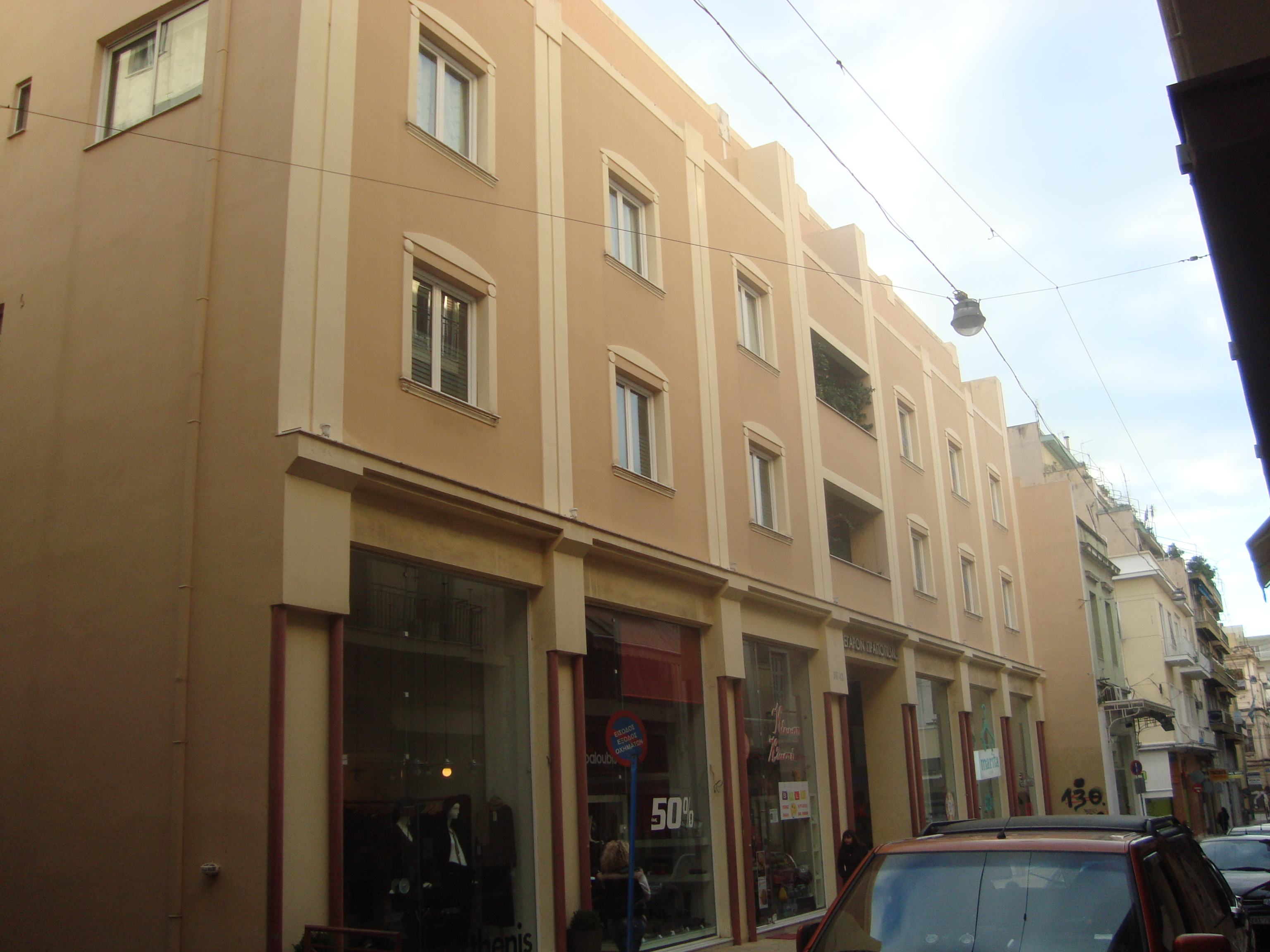 Prapopoulos , Patra